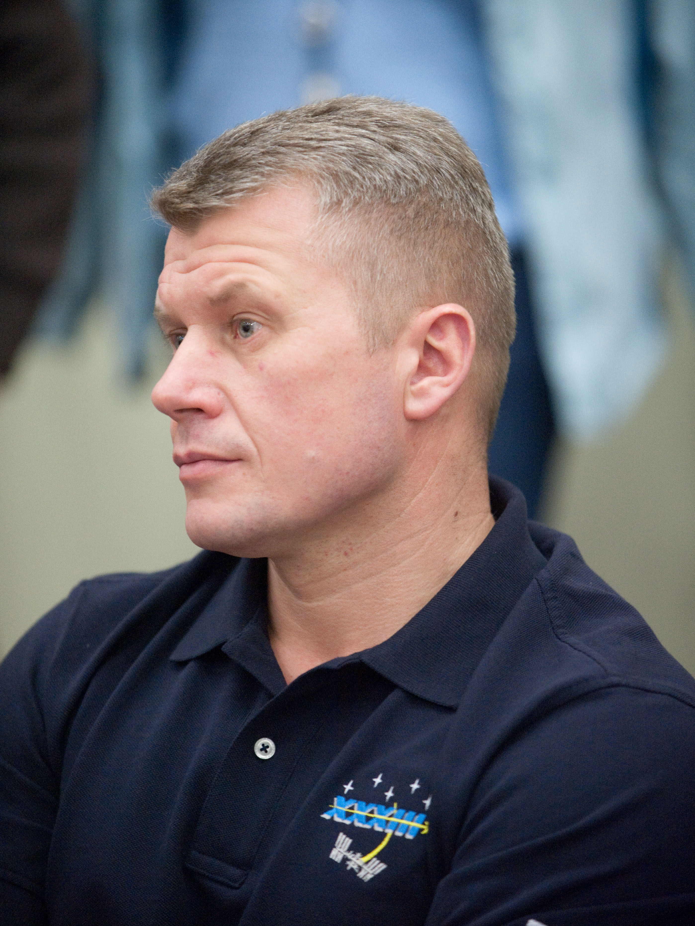 Russian cosmonaut Oleg Novitskiy, Expedition 33/34 flight engineer, is pictured during an emergency scenario training session in the Space Vehicle Mock-up Facility at NASA's Johnson Space Center.